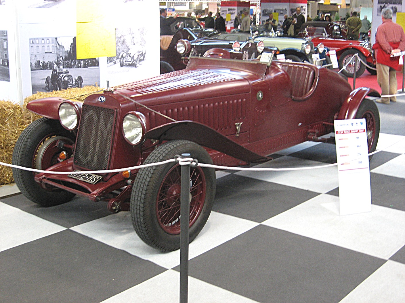 Subject:OM 665, 2234cc. Year 1930 Author:Luc106 Event:Old Timer Show 2008 Place/Country: Forlì, Italy I release all rights in the public domain.